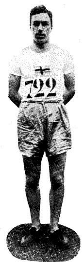 Swedish athlete Helge Jansson